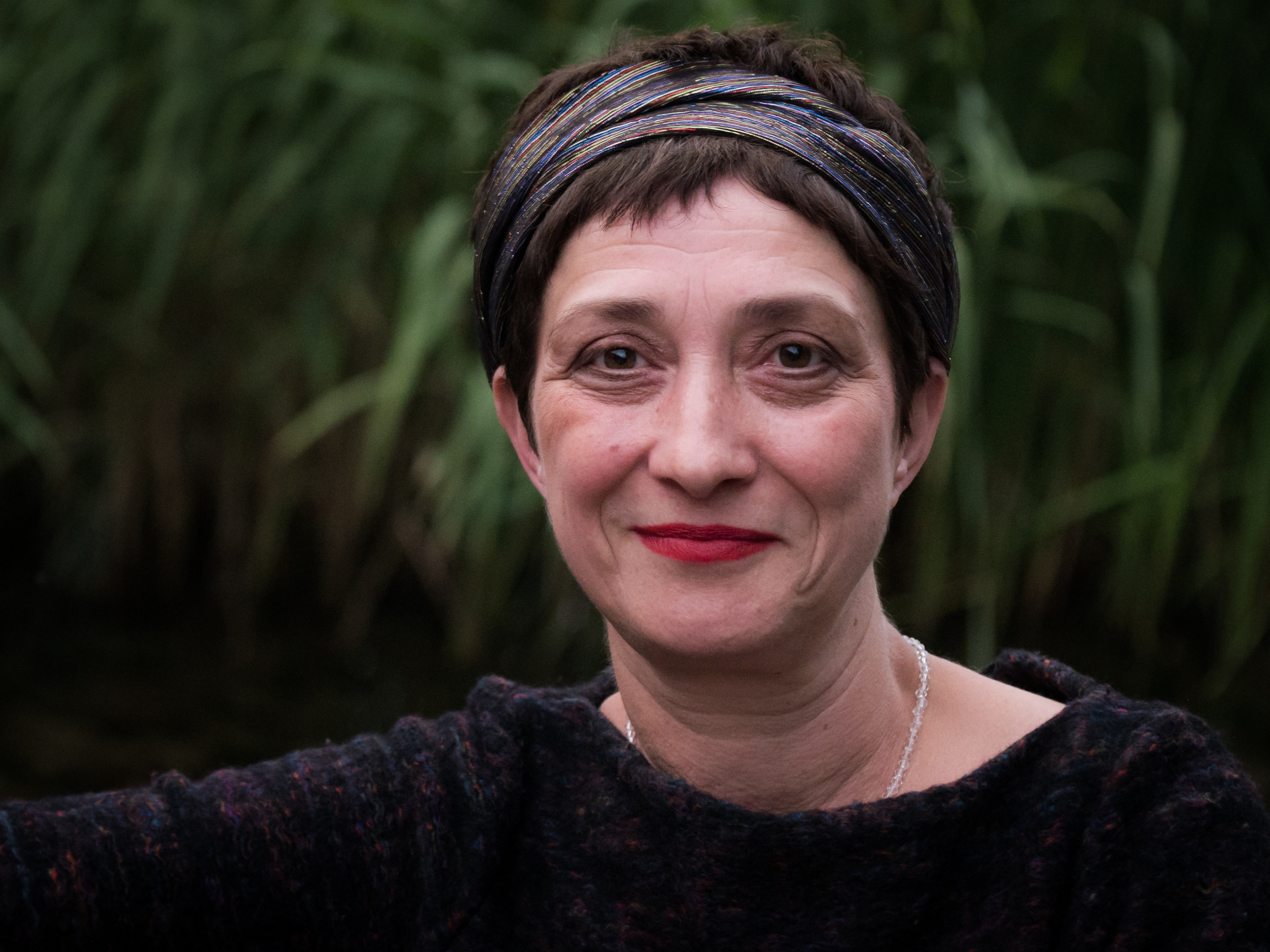 Writer Zehra Çırak at the Hausach Leselenz 2017